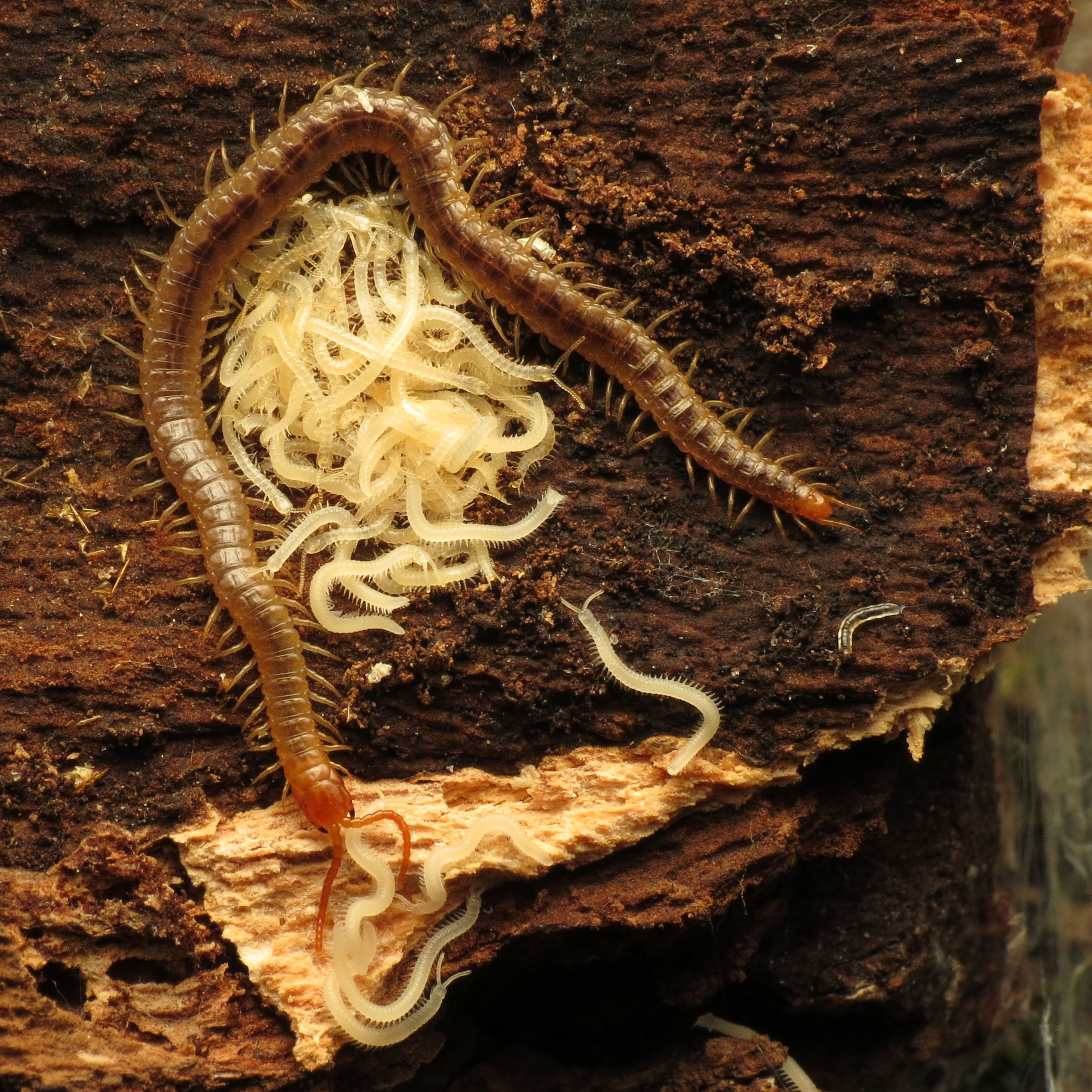 Geophilus sp. Rock Creek Park, Washington, DC, USA